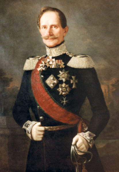 Portrait of W:de:Adolph von Sell by Theodor Fischer (1817–1873)